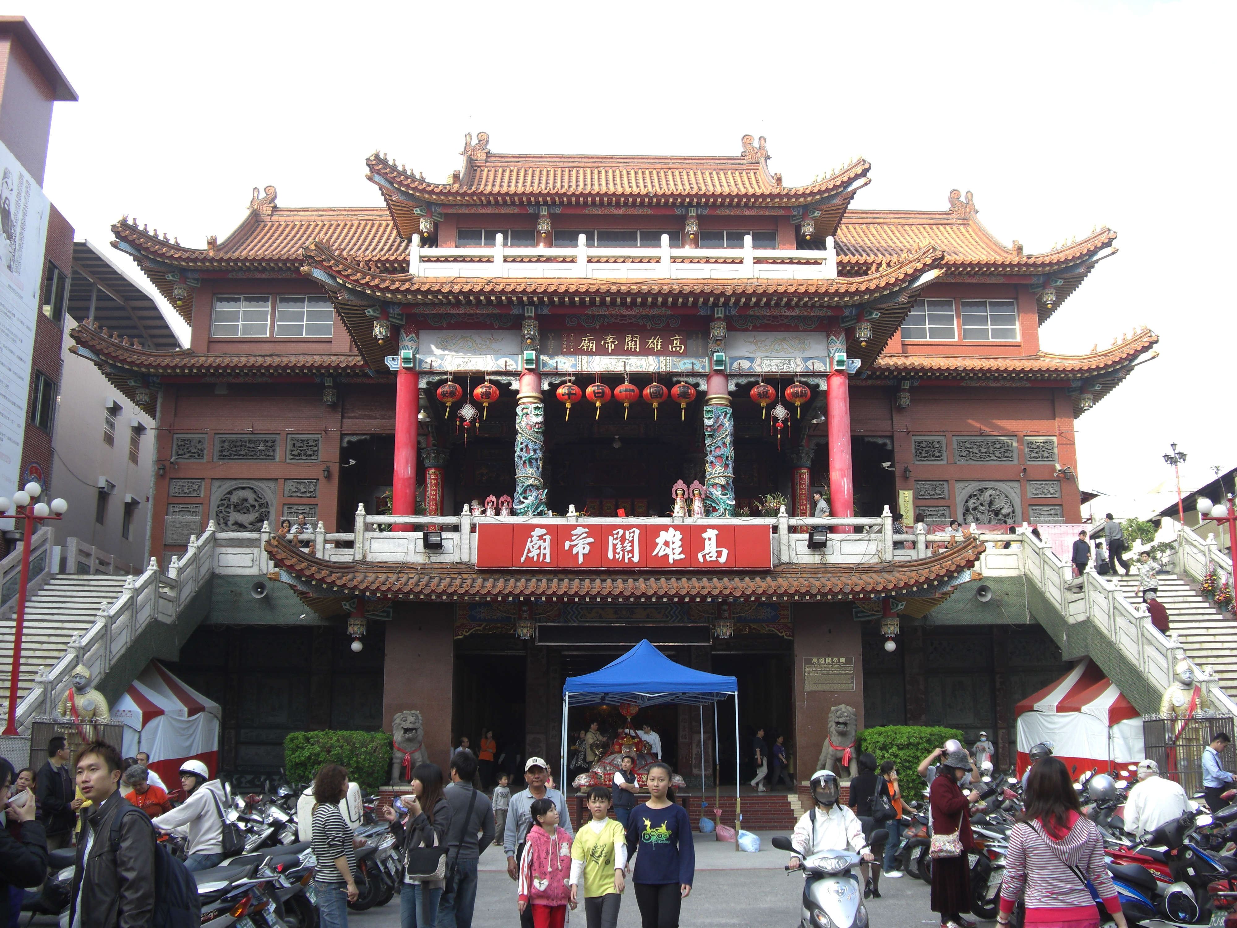 Kaohsiung Guandi Temple